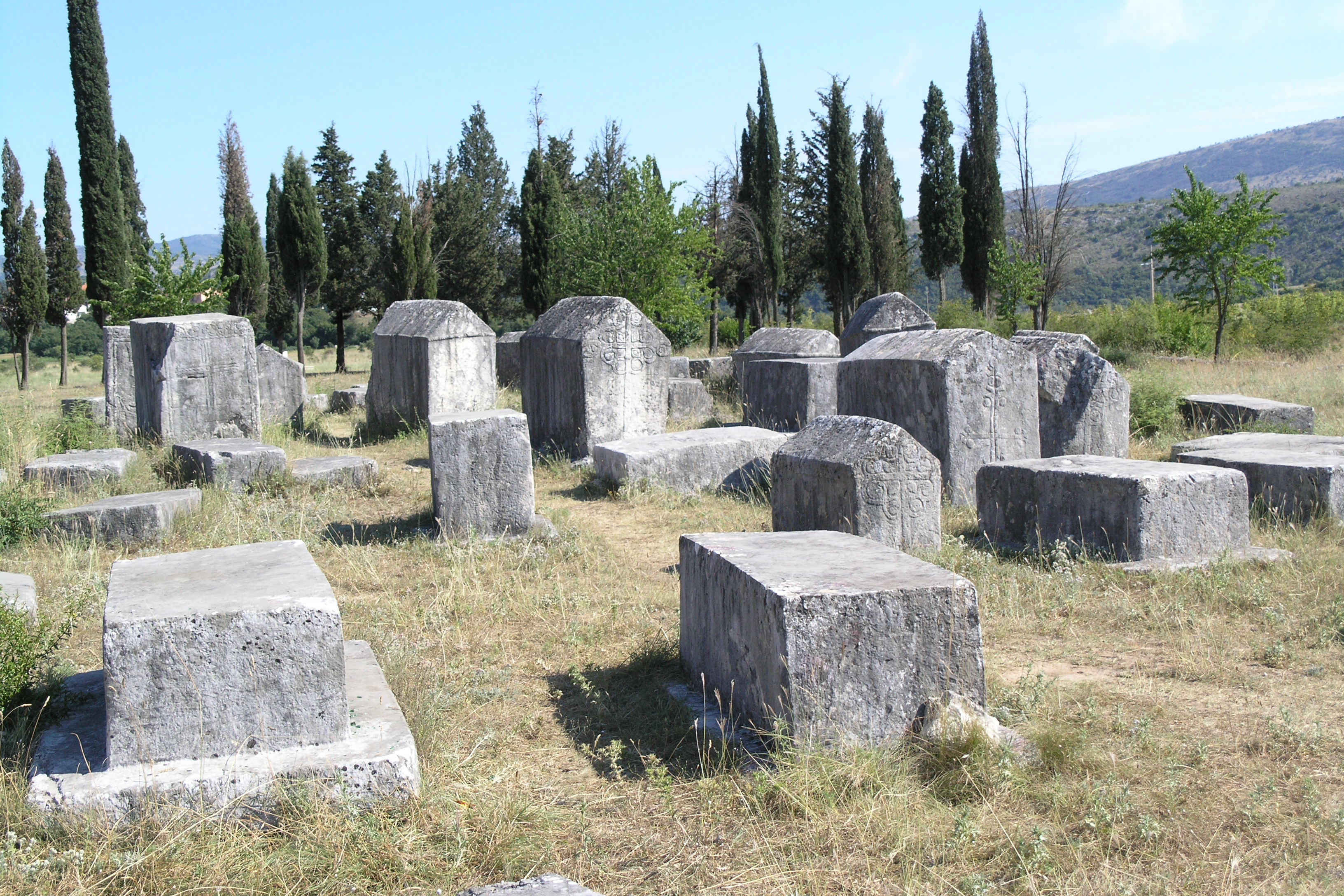 Bosnia and Herzegovina, Radimlja necropolis